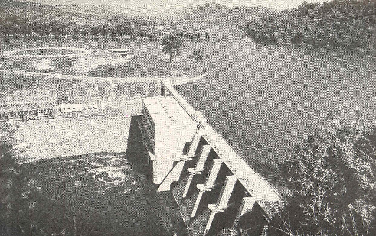 TVA's Fort Patrick Henry Dam and Reservoir, on the South Fork Holston River near Kingsport, Tennessee, USA.